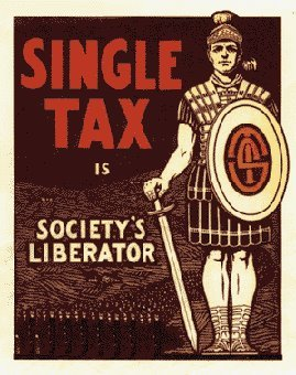 The Single Tax poster was used as an advertisement for The Public, a Chicago Georgist newspaper published by Louis F. Post, the eminent author and advocate who served as Assistant Secretary of Labor in the Wilson Administration.